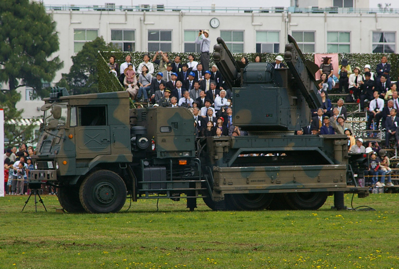 Taken by Los688,29-Apr-2008,JGSDF Camp-Shimoshizu.JGSDF Type 81C Surface-to-Air Missile,Air Defence Artillery School unit. ja:2008年4月29日、投稿者撮影。陸上自衛隊下志津駐屯地記念行事。81式短距離地対空誘導弾改（発射装置）、高射教導隊。